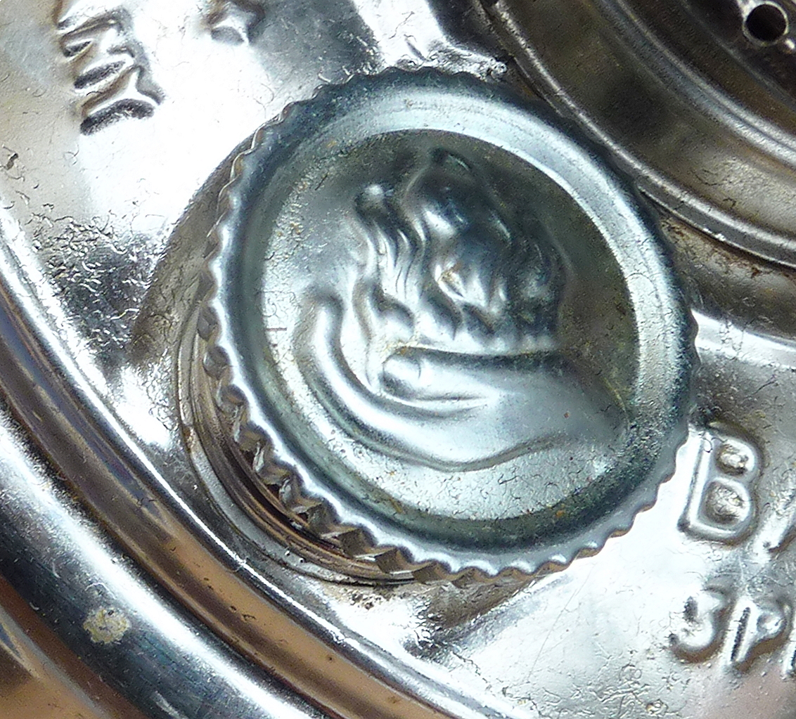 Kerosene lamp of German brand Feuerhand (“Sturmlaterne”), model 276 Baby Special; presumed year of production 2010. Close-up view of the tank’s metal screw-on cap, displaying an embossed version of the company emblem, the “fire hand”.